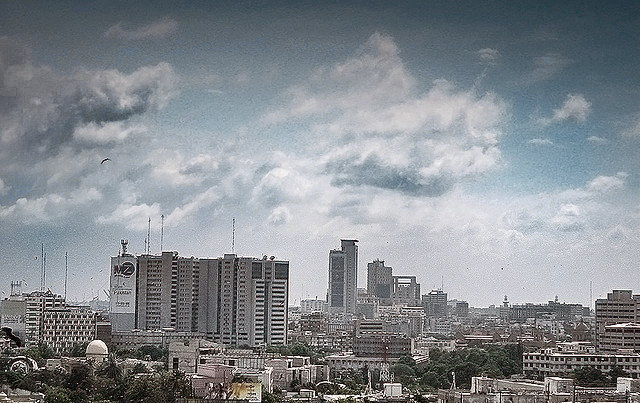 Karachi downtown at I. I. Chundrigar Road